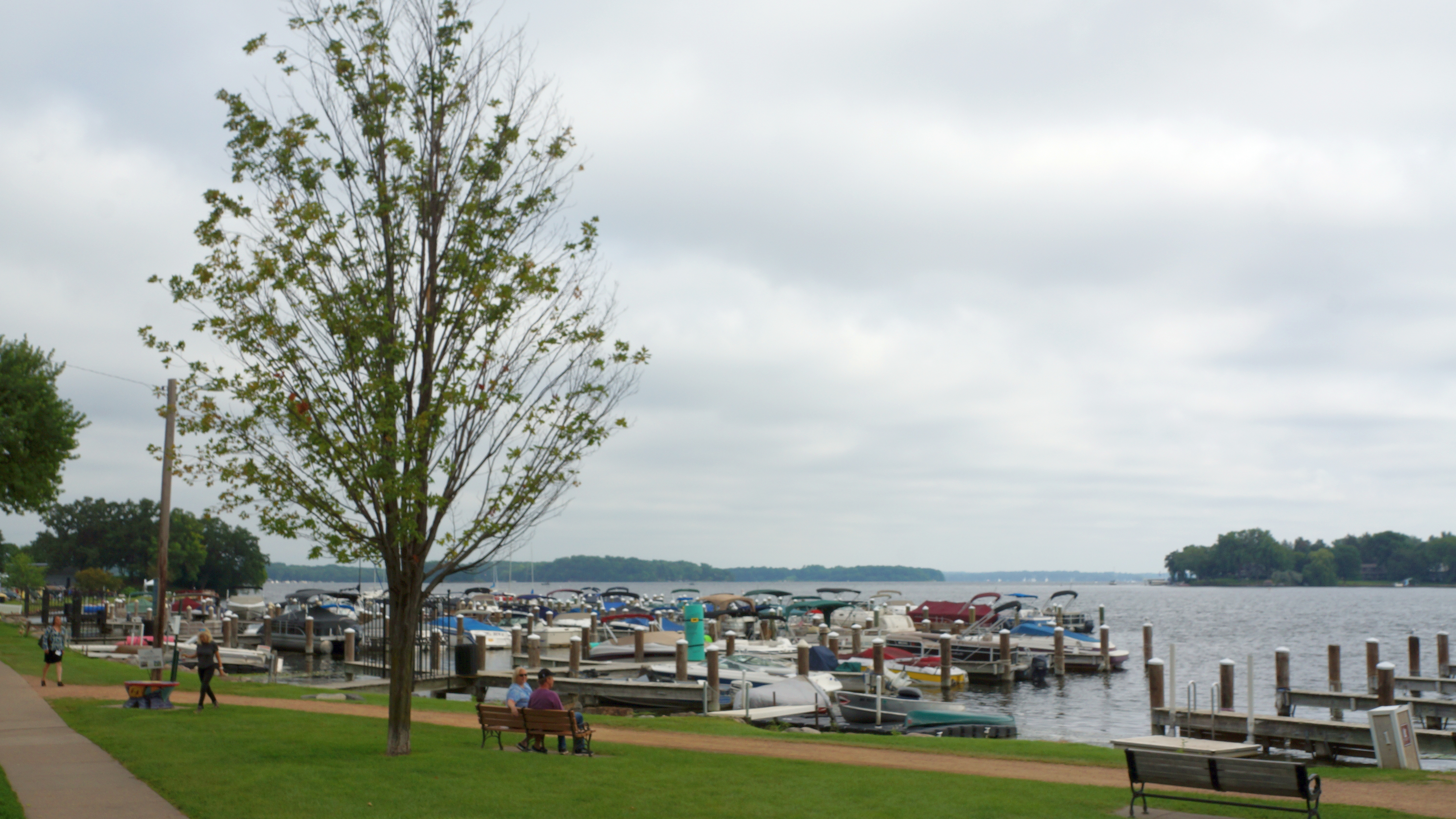 The Commons and Port of Excelsior, Excelsior, Minnesota.